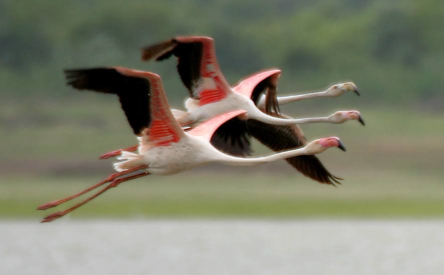 Greater Flamingo Phoenicopterus roseus - Sind: Lakka, Lakke jani, Hindi: Bog/Raaj hans, Sans: Bruhat balak, Bagg, Valiya rajahamsam, Bi: Charaj baggo, Ben: Kanmunthi, Kanthuti, Guj: Balo, Hunj, Moto hanj, Kutch: Hanj pakkhi, Mar: Rohit, Gnipankh, Pandav, Ta: Poonarai, Kizhi mooku naarai, Te: Pu konga, Samudrapu chiluka, Raja hamsa, Mal: Valiya poonara, Sinh: Siyak karaya- at Pocharam lake, Andhra Pradesh, India.